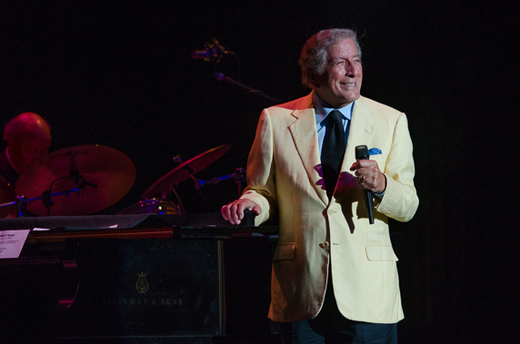 Tony Bennett performing at the Blaisdell Concert Hall in Honolulu, Hawaii. Photo by Peter Chiapperino